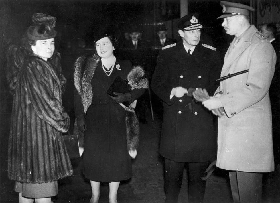 King George VI and Queen Elizabeth (centre) with the Gloucesters at Euston Station immediately before the Gloucesters' departure for Australia